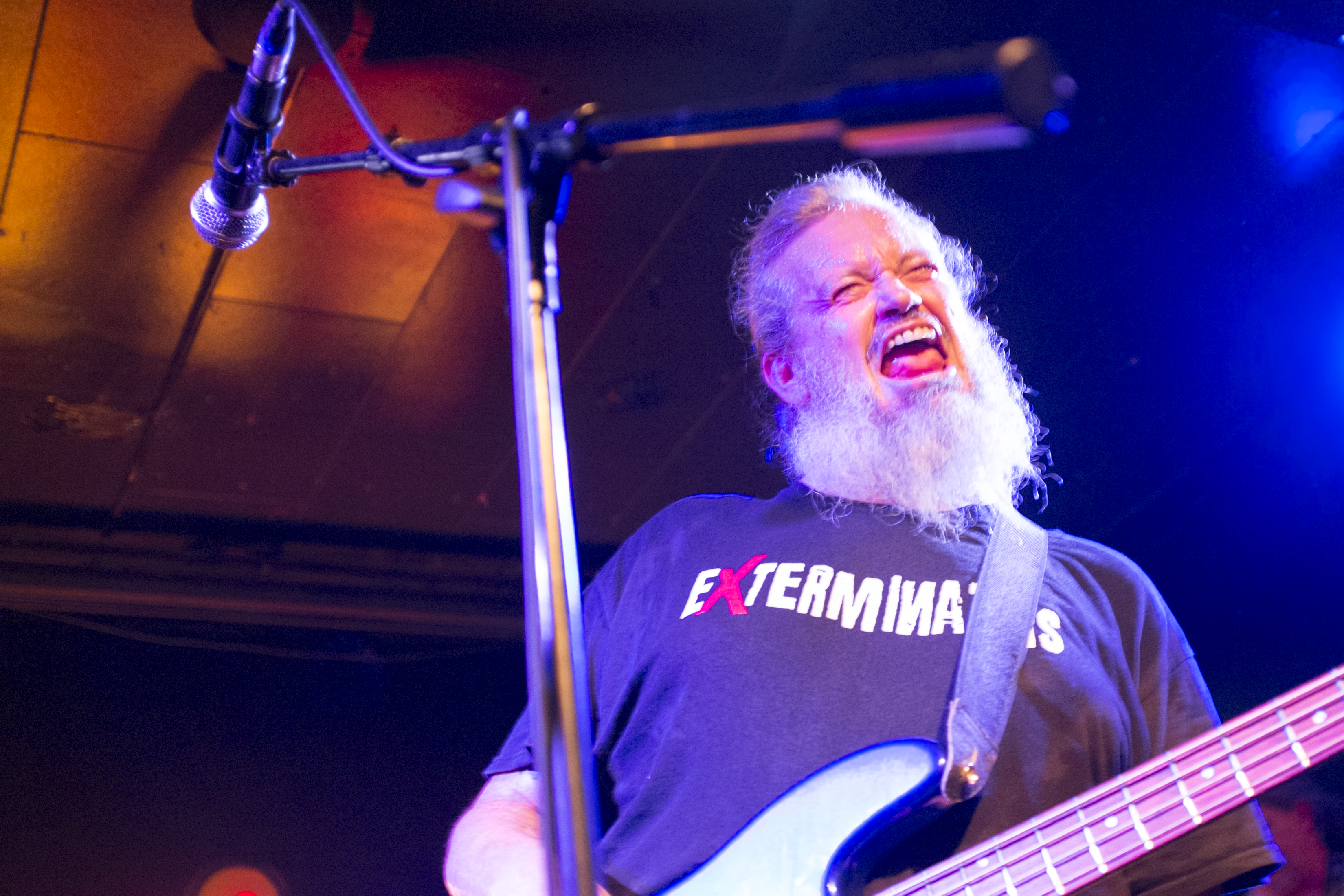 Meat Puppets, Neurolux, Treefort 2017, photo Patrick Sweeney